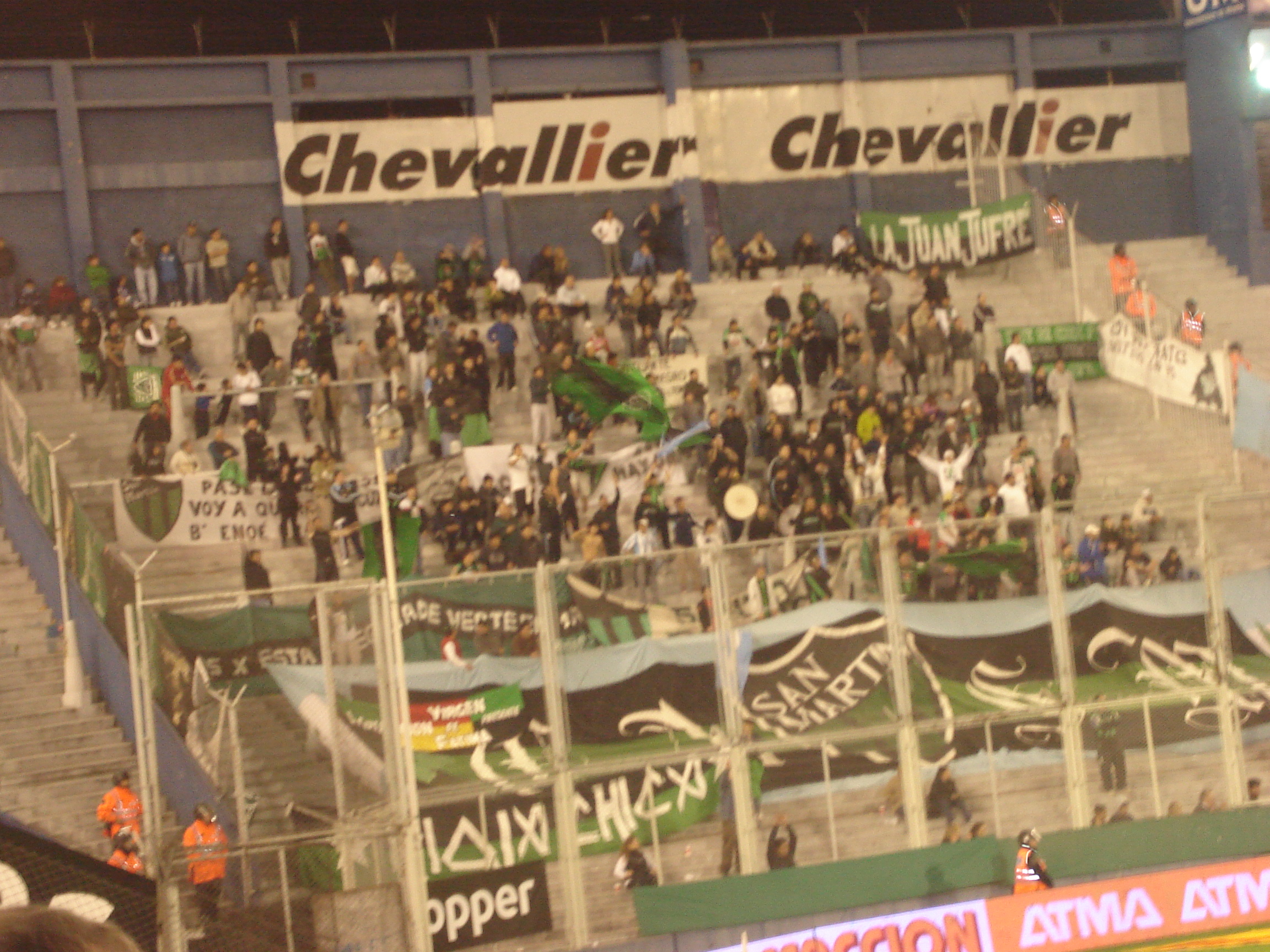 San Martin supporters